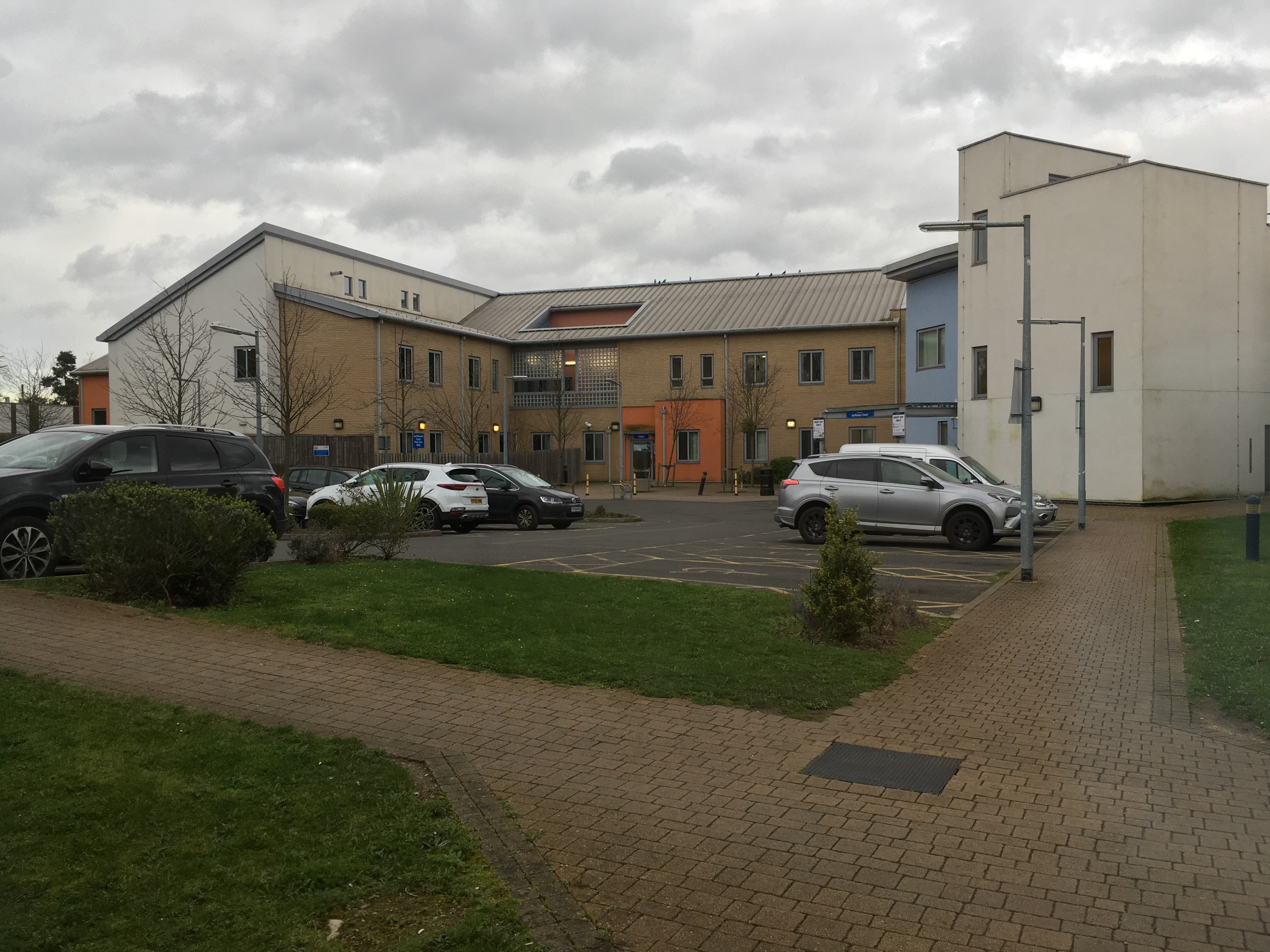 Sunflowers Court, Goodmayes Hospital, 25 February 2020